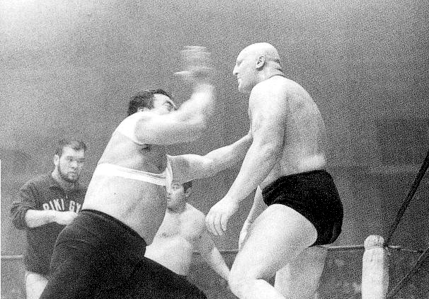 Rikidōzan (1924–63) demonstraits "Katare Chop".